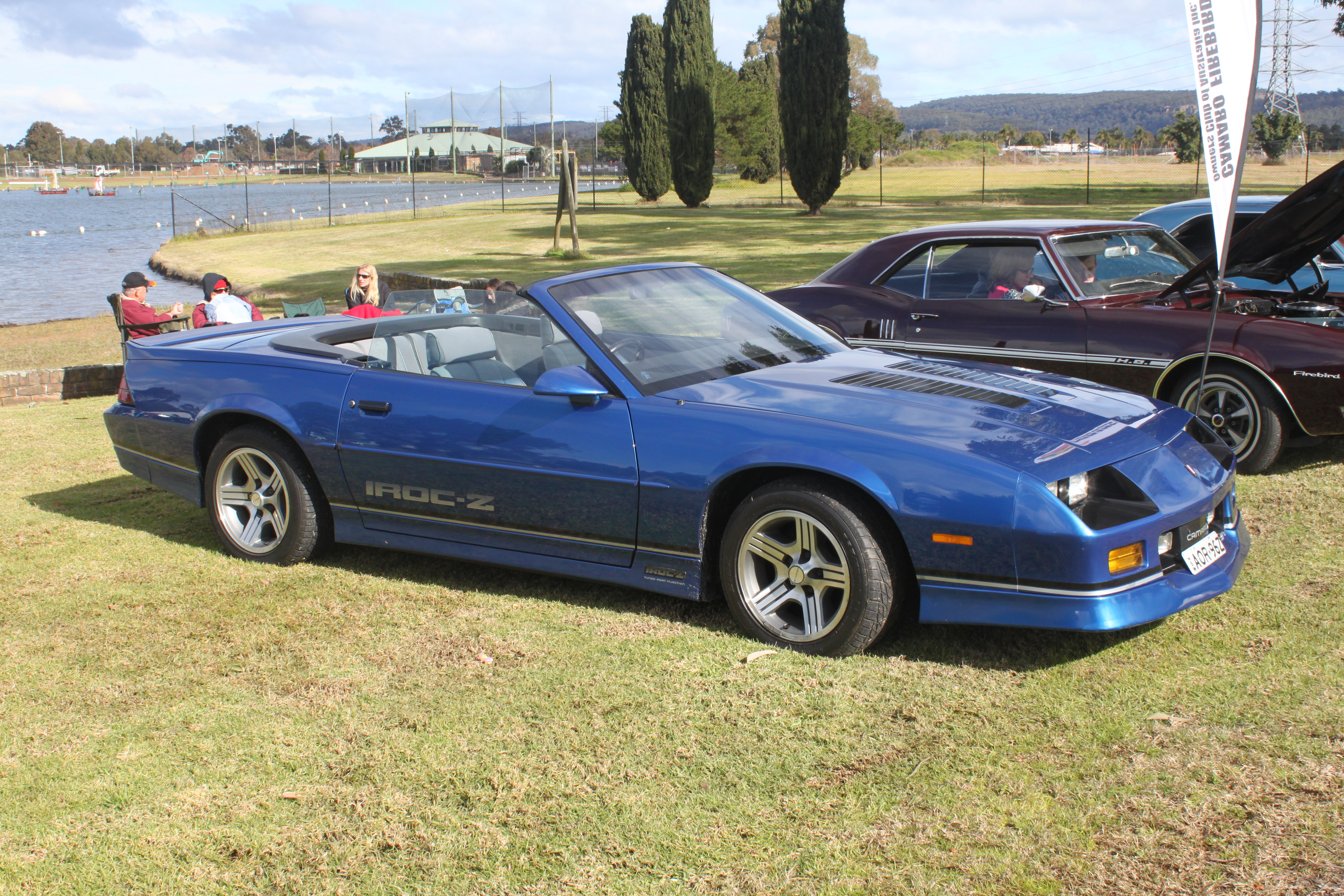 GM Display Day, Penrith Panthers, NSW July 2015